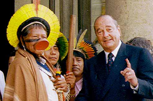 Raoni & former french president Jacques Chirac